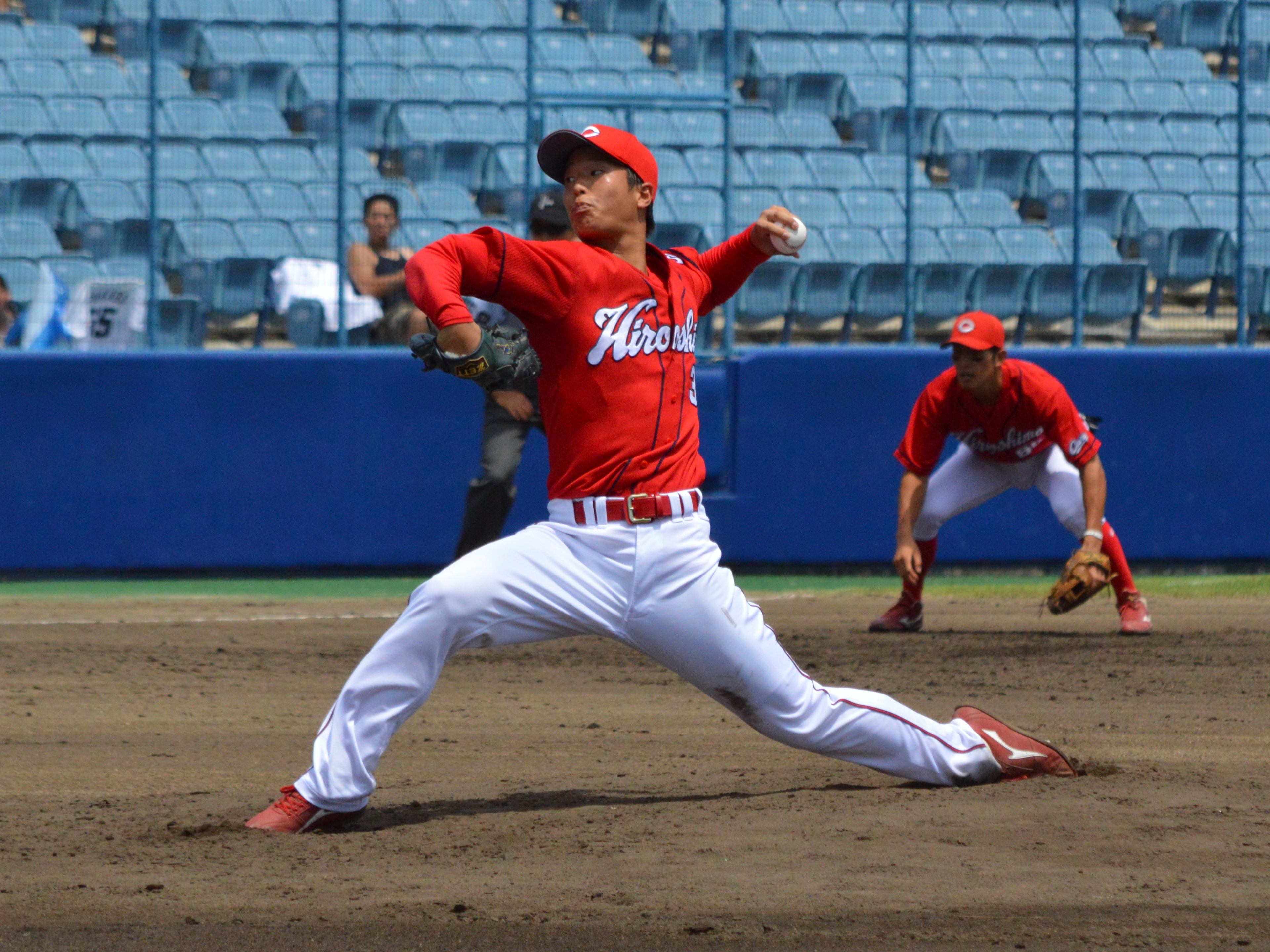 Atsuya Horie, pitcher of the Hiroshima Toyo Carp, at Nagoya Stadium